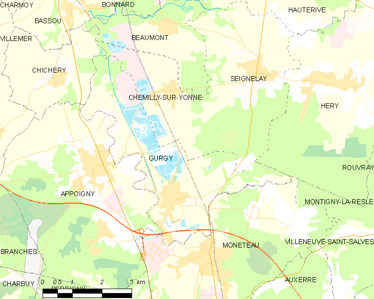 Map of French municipality Gurgy